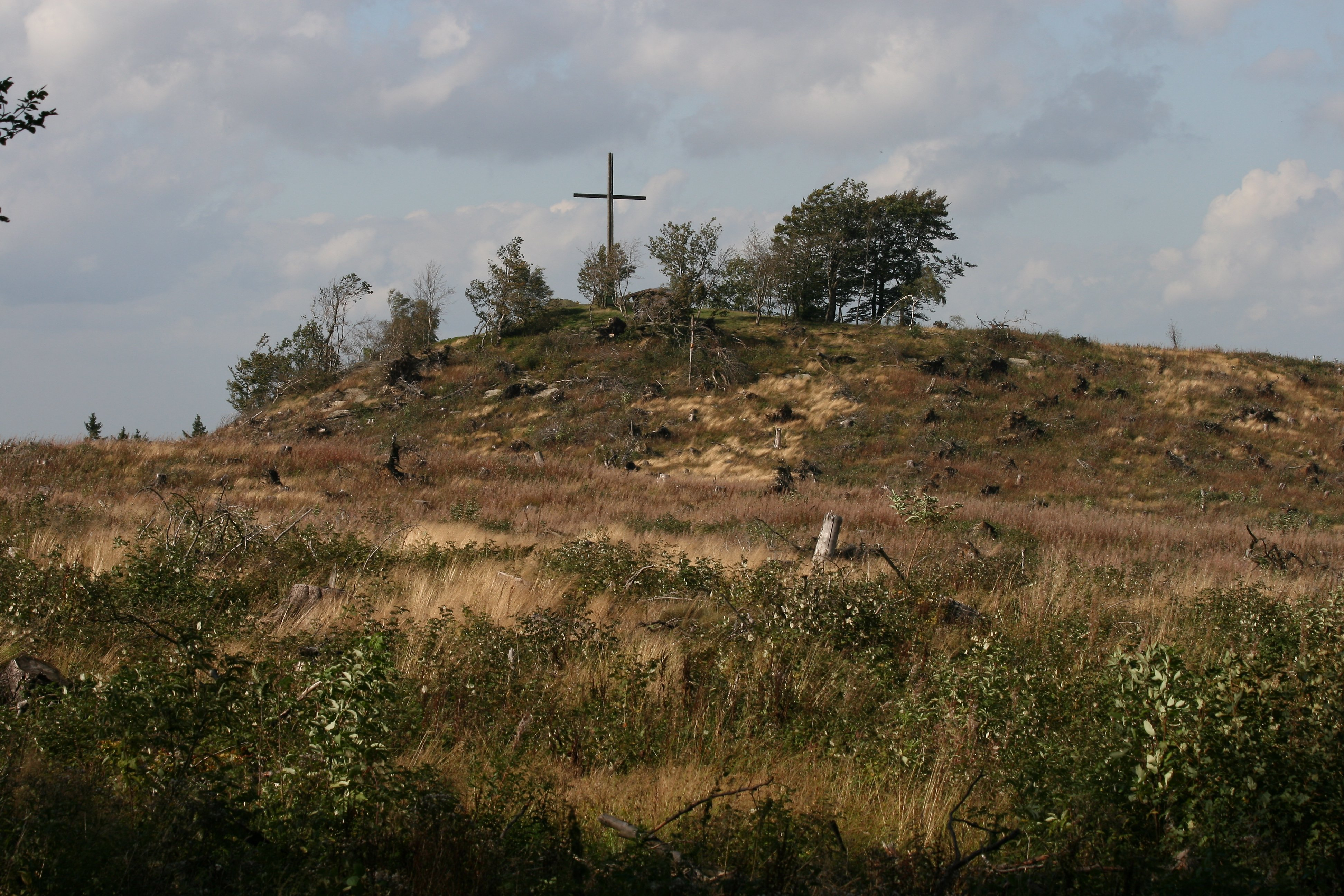 Olsberg mountain peak in Germany